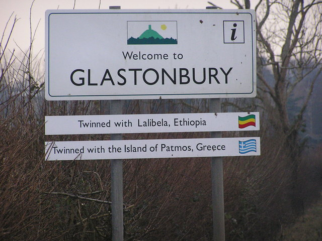 Welcome to Glastonbury The Welcome to Glastonbury sign showing twinning arrangements.